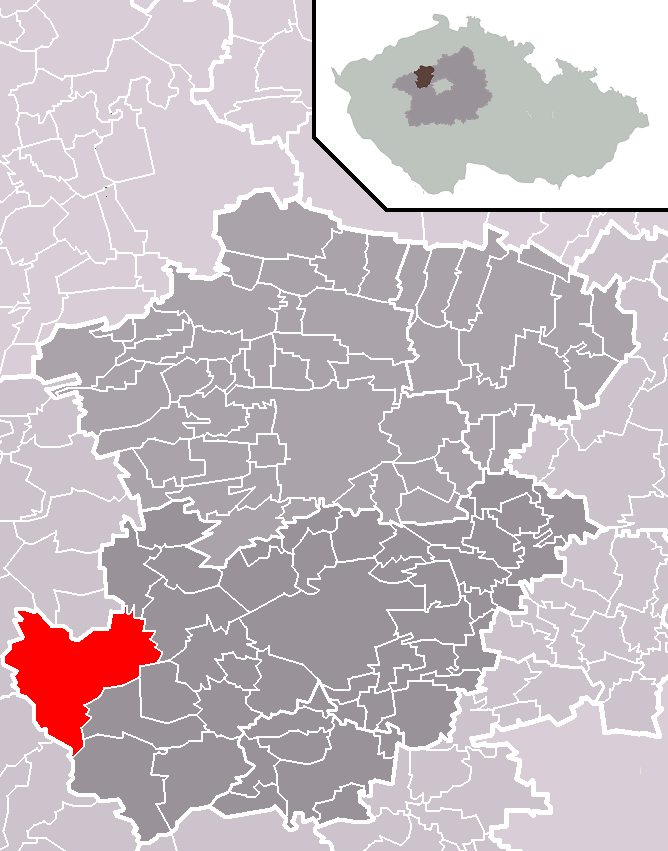 Location of Lány municipality within Kladno District and administrative area of Kladno as a Municipality with Extended Competence.